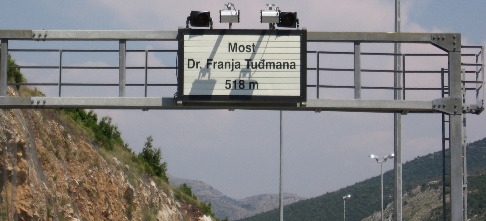 Dubrovnik, Croatia, road #8: the gate over the bridge over the harbour of Adriatic Sea